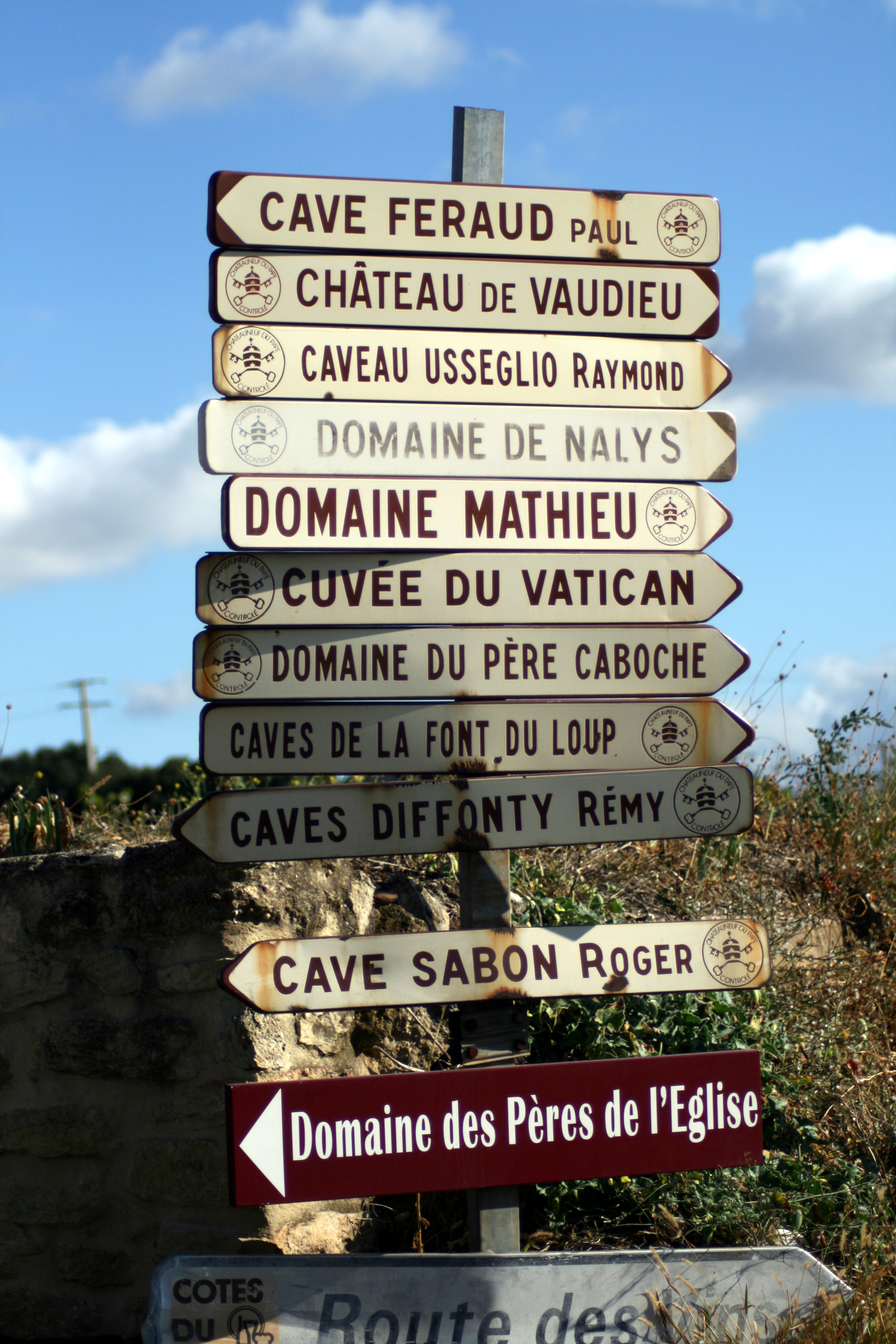 Wine growers signs at Châteauneuf-du-Pape